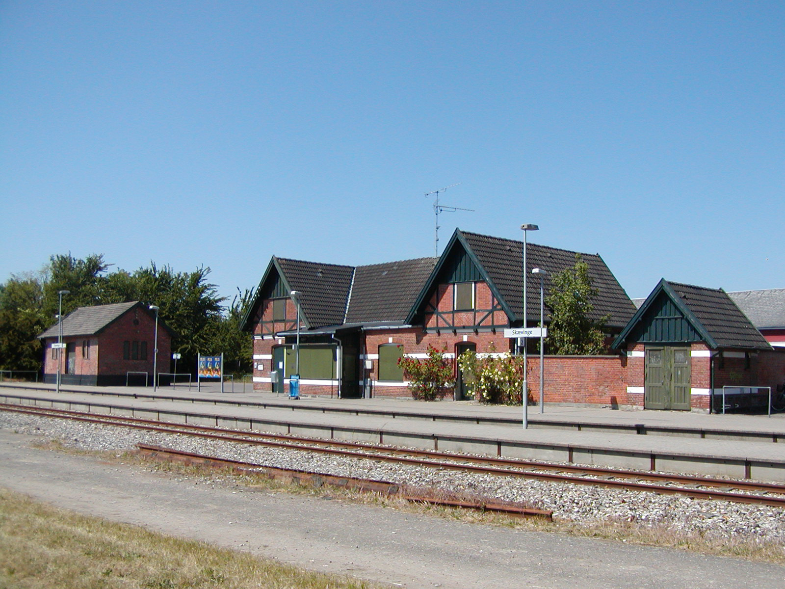 Skævinge Station